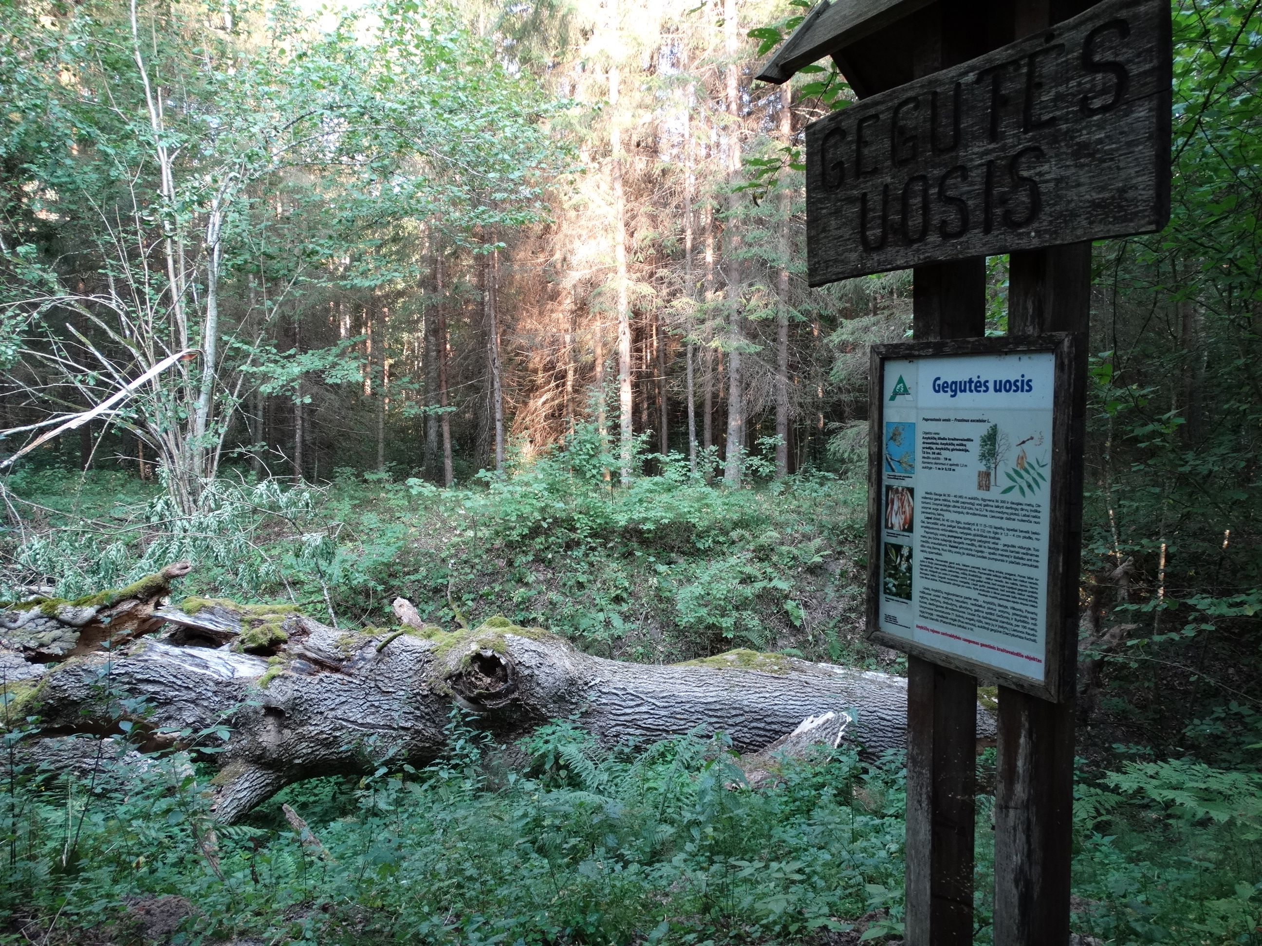 Fraxinus excelsior „Gegutės“ (Cuckoo's ash), Anykščiai District, Lithuania